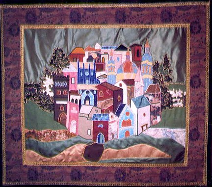 Zaragoza